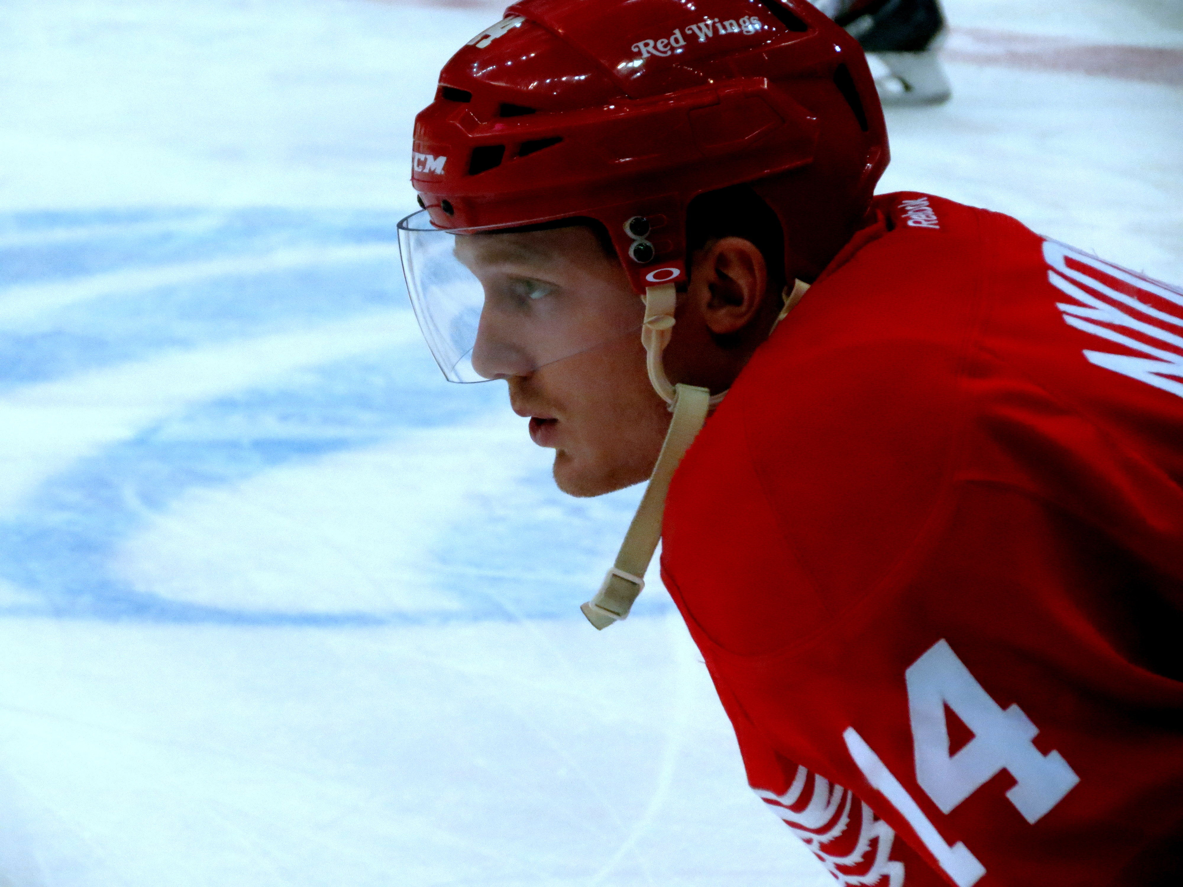 Gustav Nyquist warms up at Joe Louis Arena on April 4, 2014.